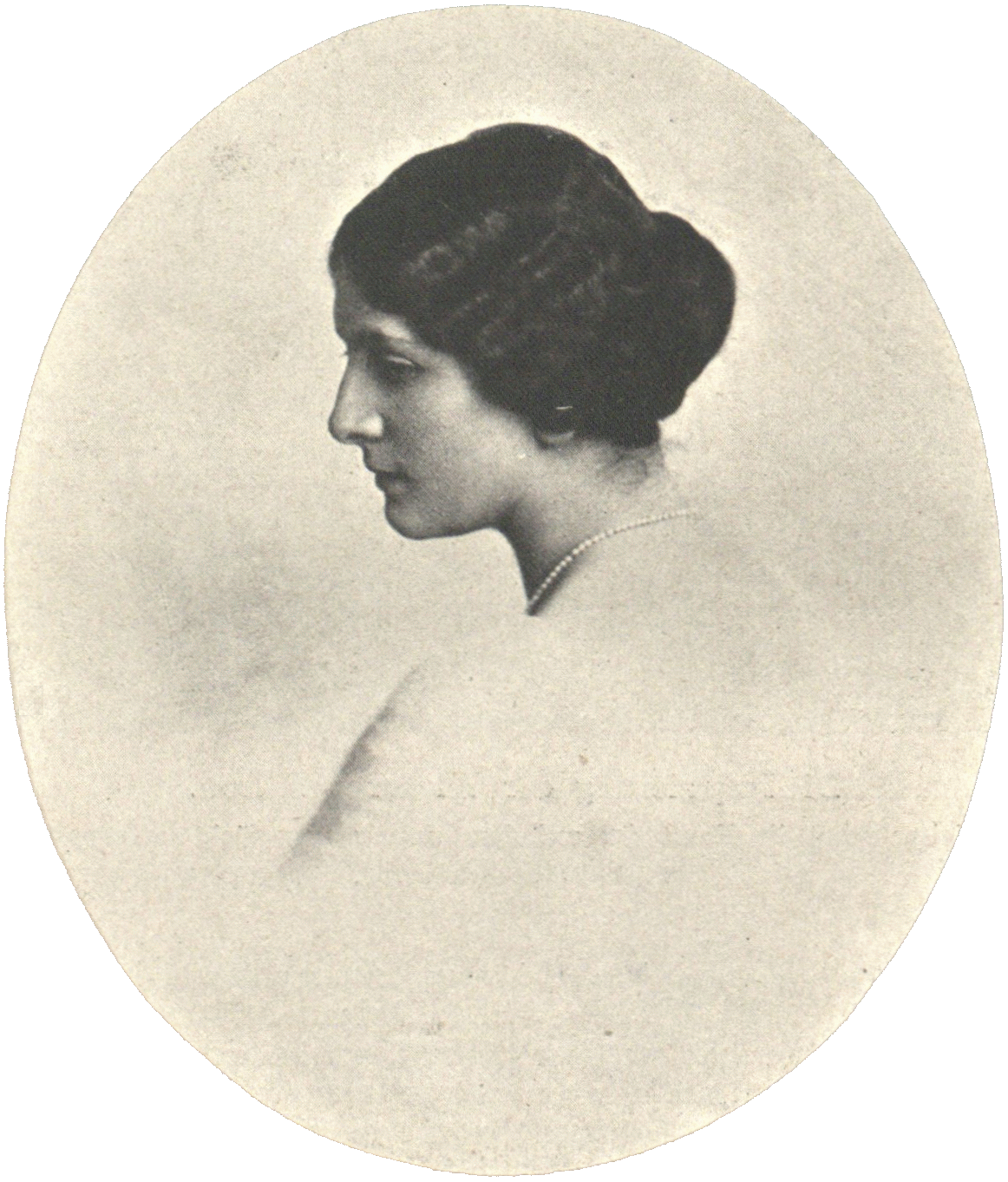 Else Wohlgemuth (1881-1972), German actress